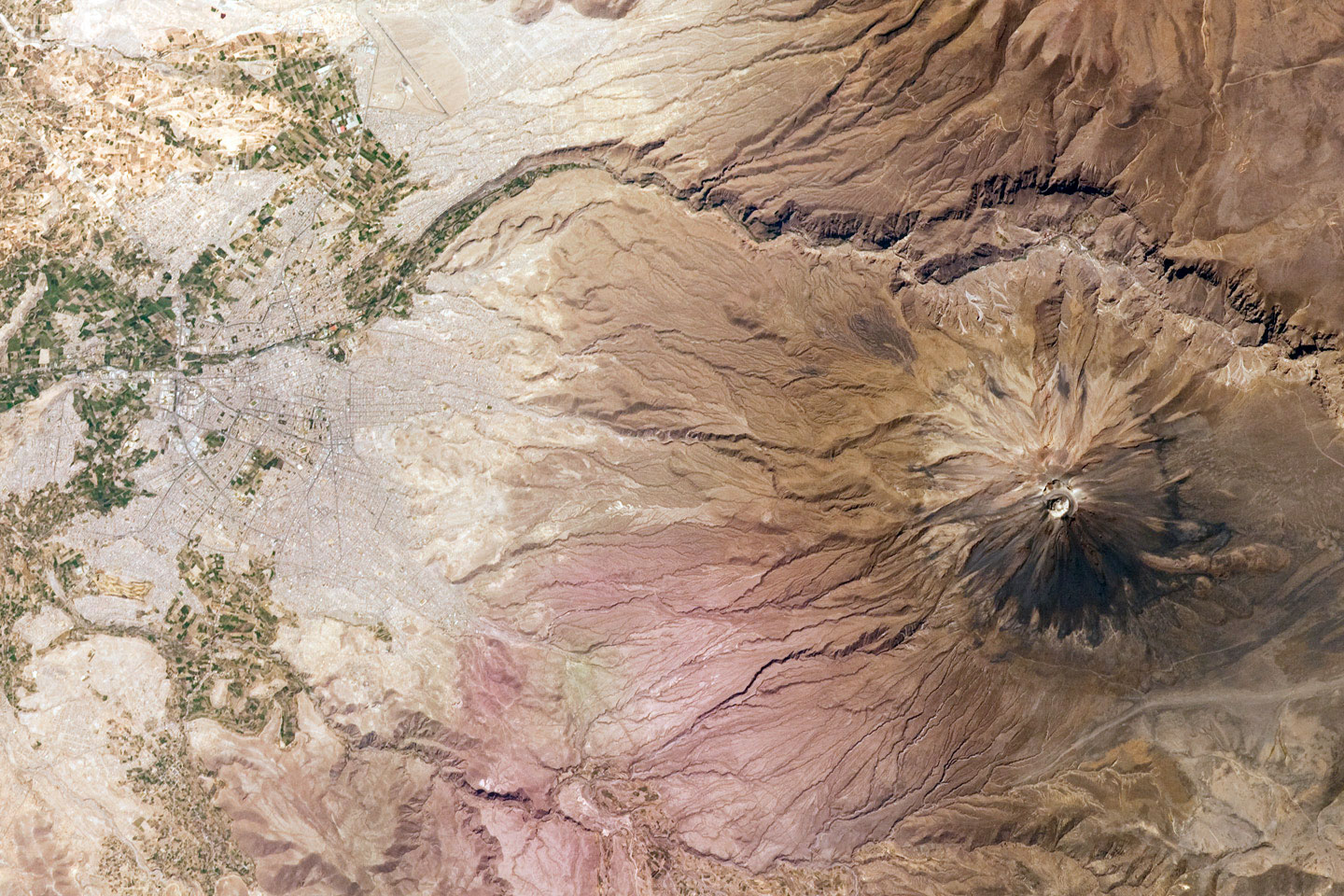 This mosaic of two astronaut photographs illustrates the closeness of Arequipa, Peru, to the 5,822-meter-high El Misti Volcano. The city centre of Arequipa, Peru, lies only 17 kilometres away from the summit of El Misti; the grey urban area is bordered by green agricultural fields (image left). Much of the building stone for Arequipa, known locally as sillar, is quarried from nearby pyroclastic flow deposits that are white. Arequipa is known as “the White City” because of the prevalence of this building material. The Chili River extends north-eastwards from the city centre and flows through a canyon (image right) between El Misti volcano and Nevado Chachani to the north.